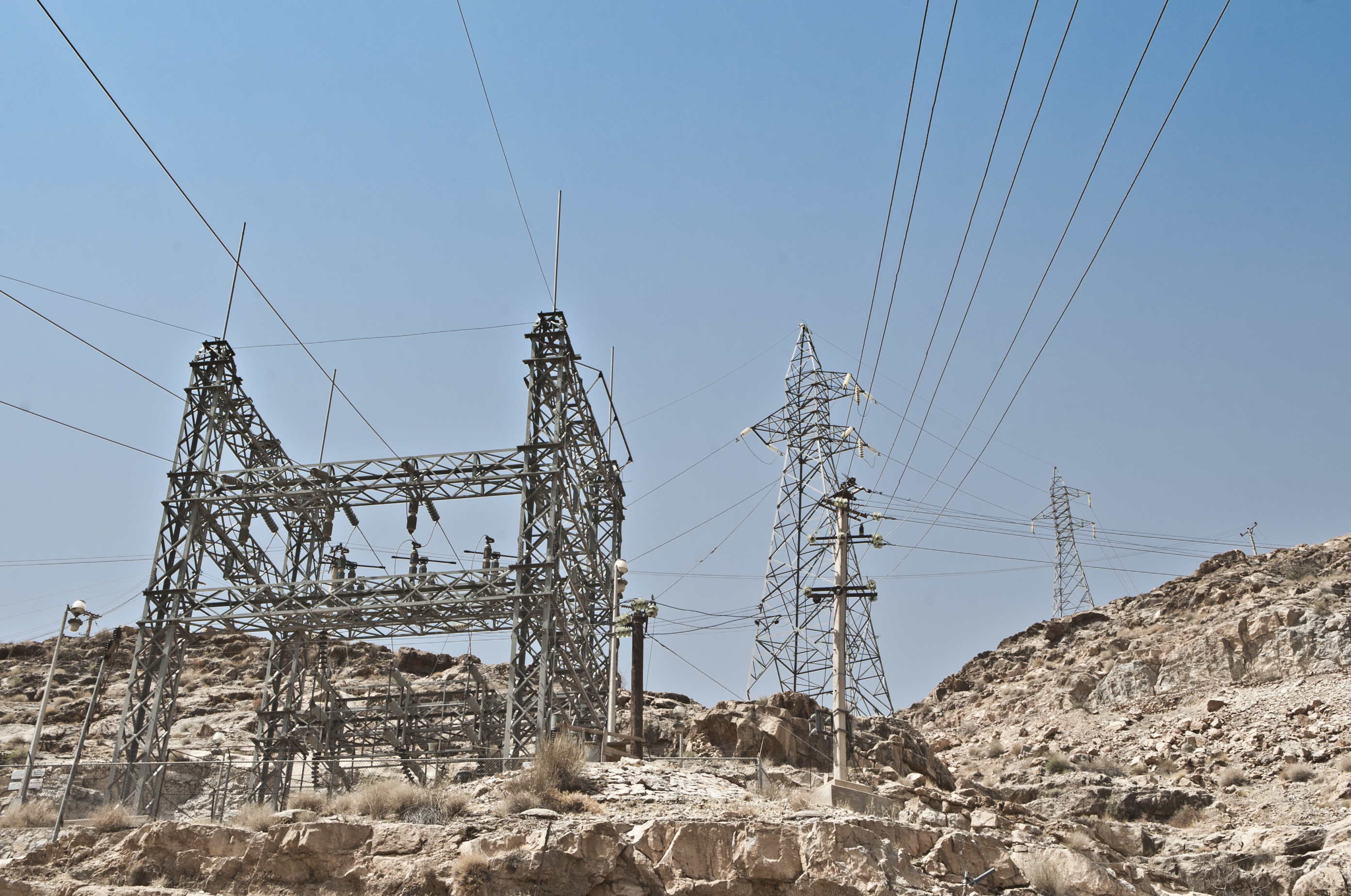 A series of power lines and substation connected to the Kajaki dam’s hydroelectric powerplant. The U.S. Army Corps of Engineers’ Afghanistan Engineer District-South and Afghan engineers recently completed installation of a primary switch center at the Kajaki dam to resolve electrical problems. (Photo ID: 427479)